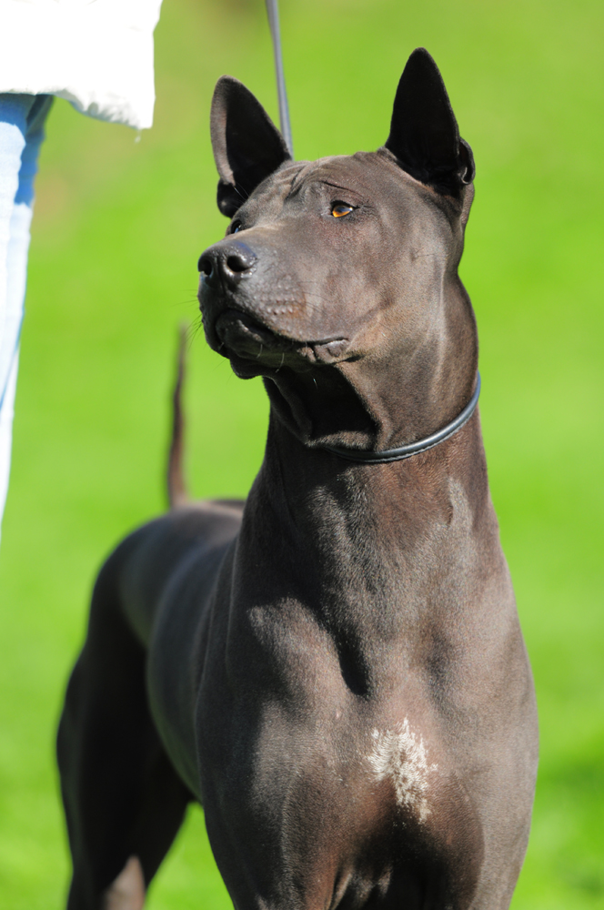 Thai Ridgeback dog